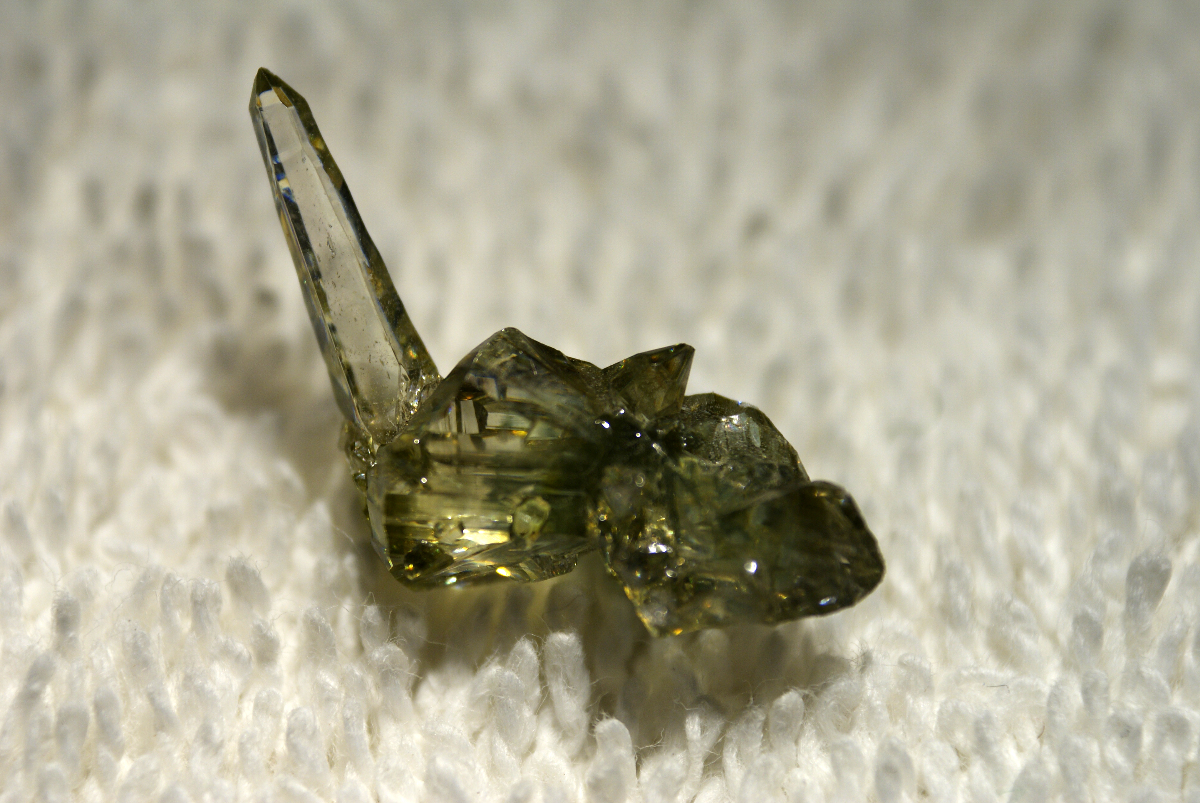 Zincite